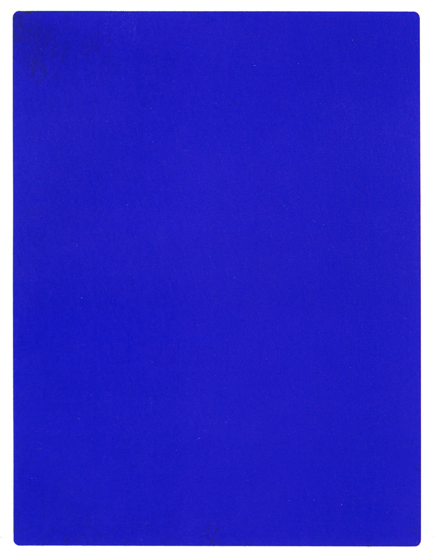 IKB 191, monochromatic painting by Yves Klein.